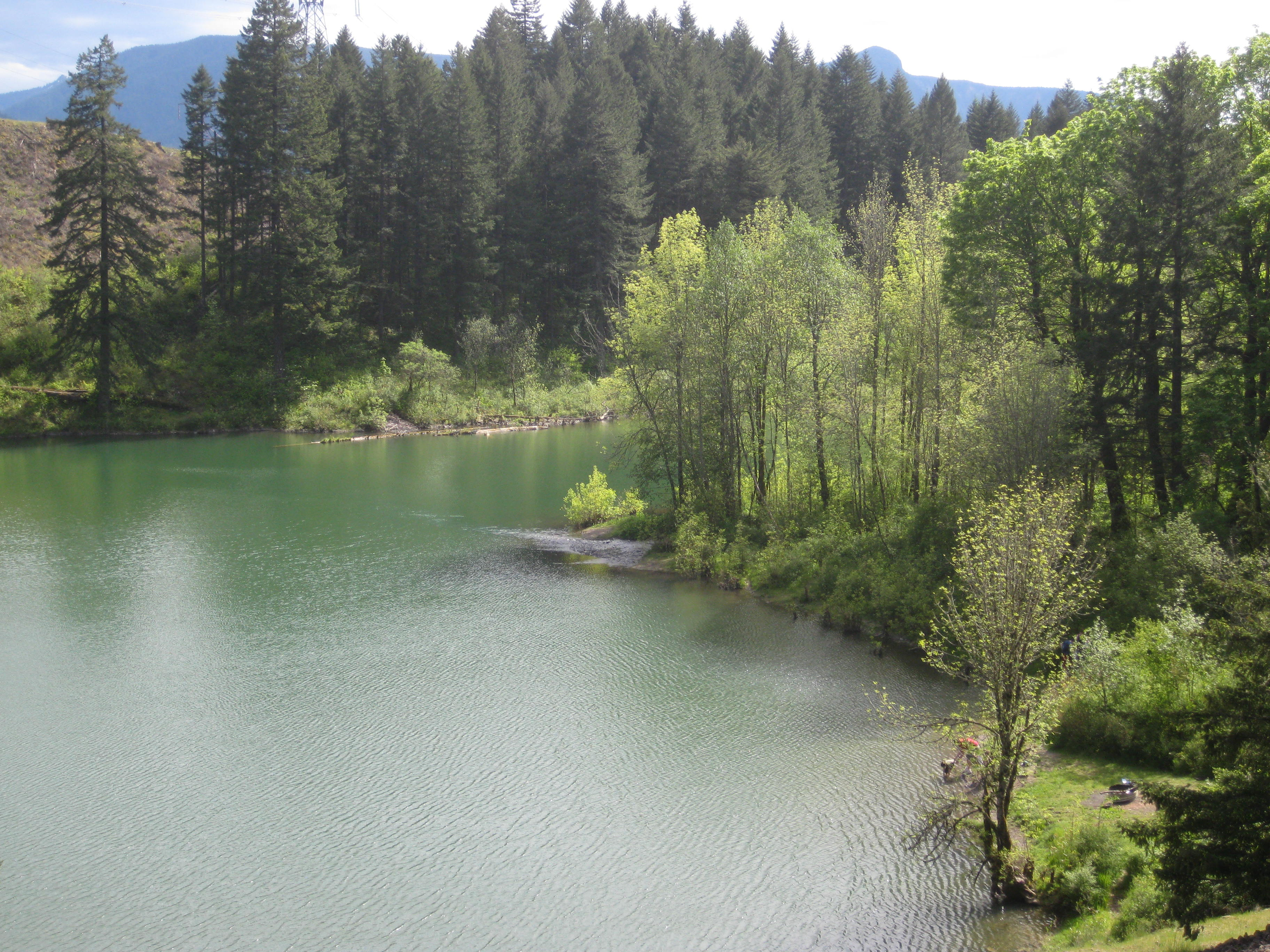 Gillette Lake is a small lake on the Washington side of the Columbia River, a little more than five miles from Bonneville Dam and just off the Pacific Crest Trail.